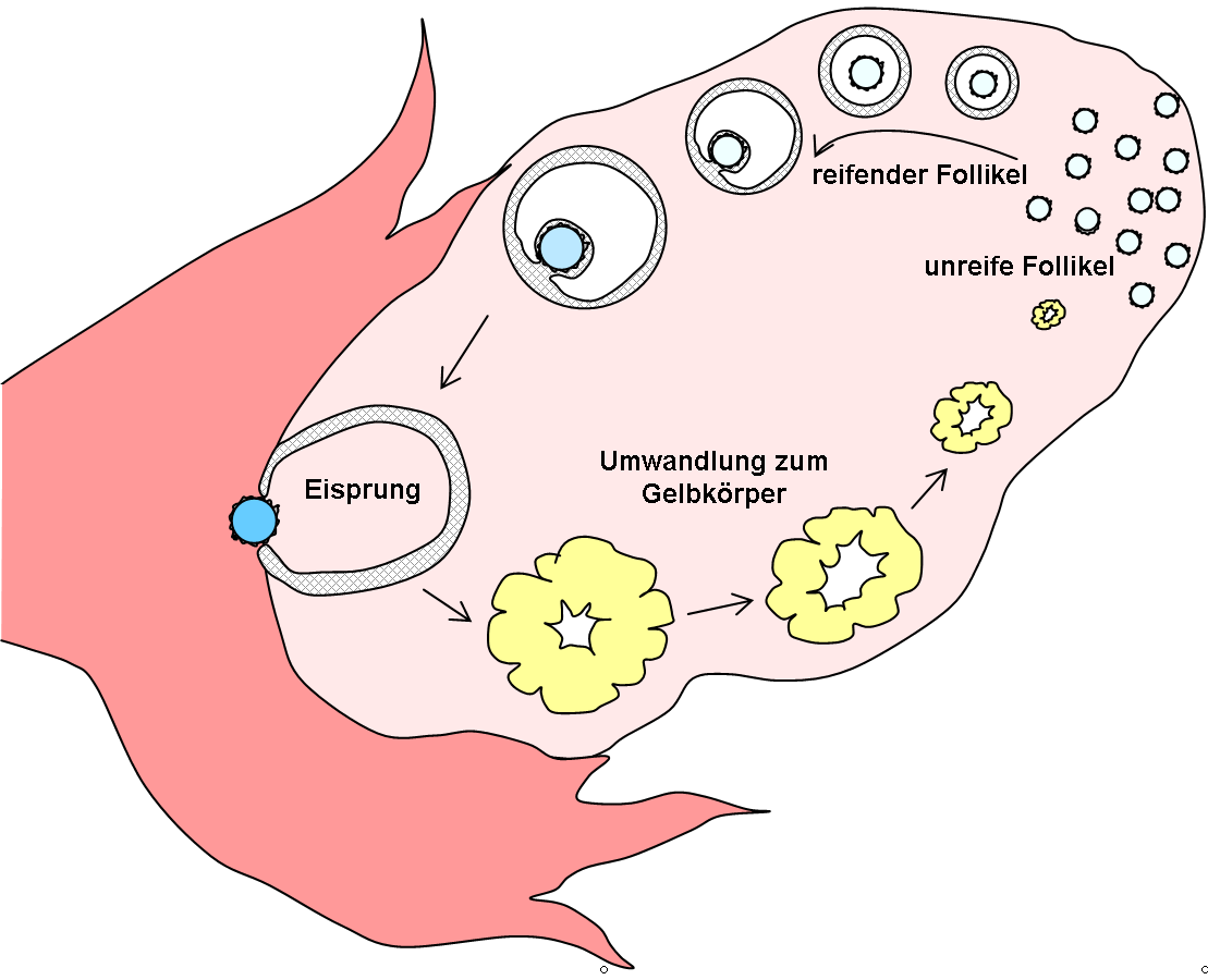 Ovulation